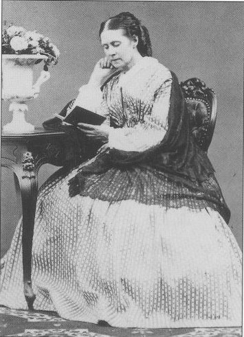 Laurette Tardy, married first to Adolphe Galloni, then Placido Tardy; Mary Shelley wrote a children's story for her when she was a child